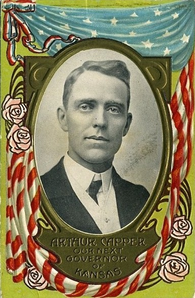 Postcard for Arthur Capper campaign for governor of Kansas. Postcard states, "Arthur Capper Our Next Governor of Kansas"; store Web page states: "Description: 1912 postmark / Size: 3-1/2 x 5-1/2""